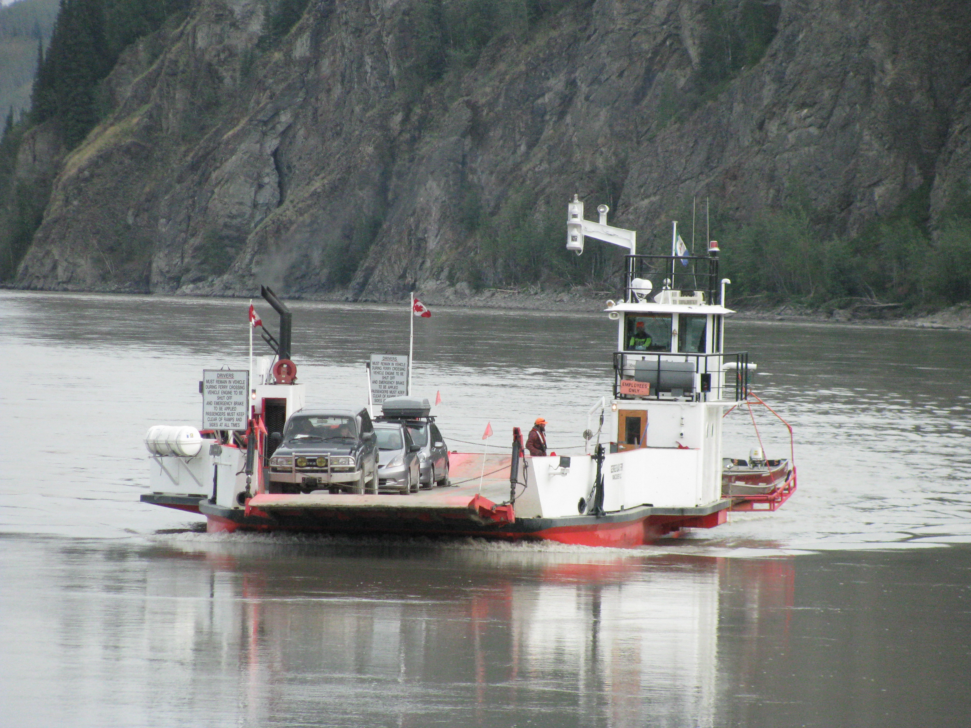 The following is the author's description of the photograph quoted directly from the photograph's Flickr page."Ferry crossing Yukon River, Dawson City, Yukon, Canada. Photographed on 13 August 2009.Joint ©© Arthur D. Chapman and Audrey Bendus. "